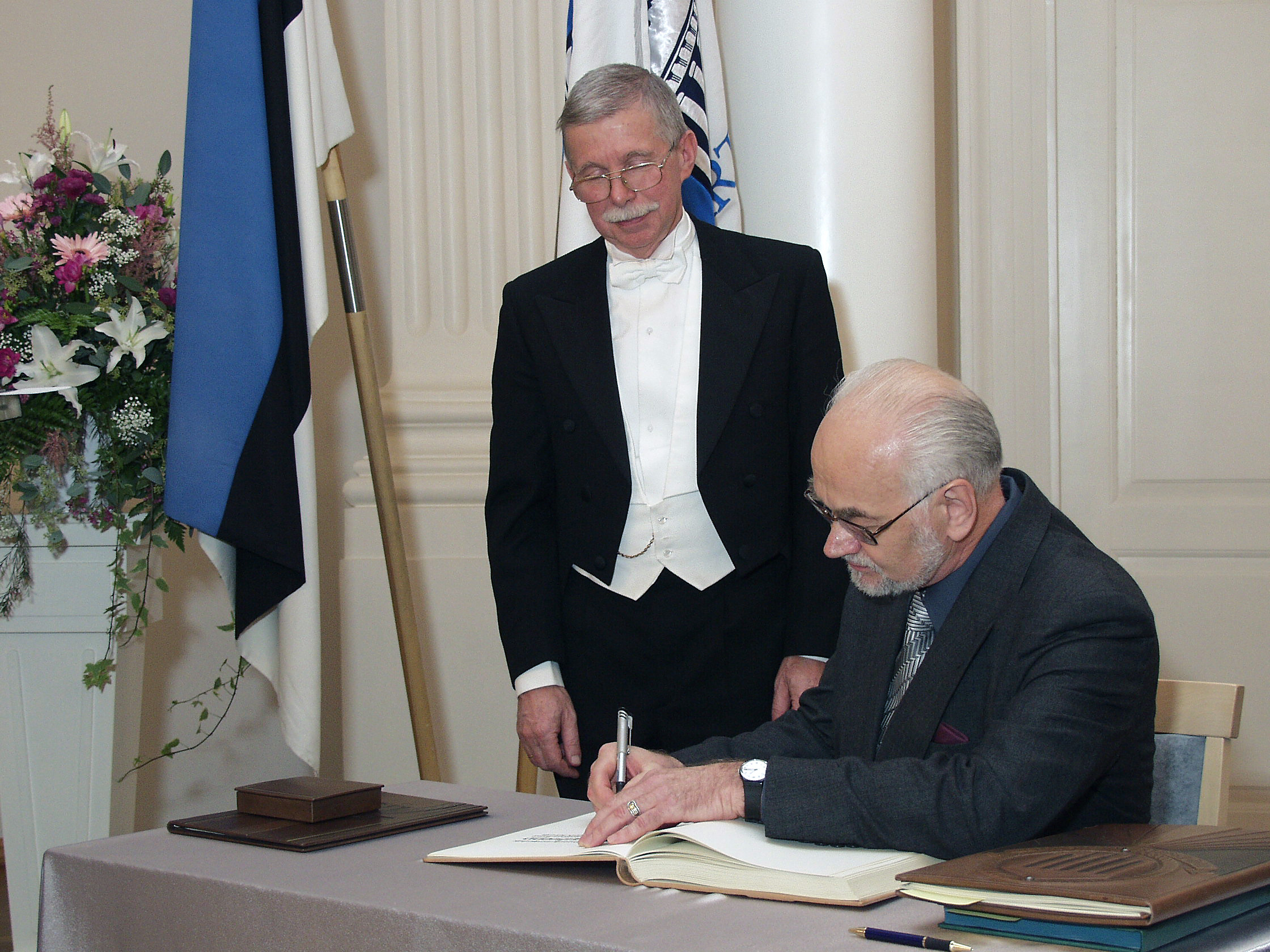 Jaak Panksepp (on the right) at the promotion of honorary doctors at the University of Tartu (December of 2004). On the left: Ivar-Igor Saarniit, the academic secretary of the University of Tartu.